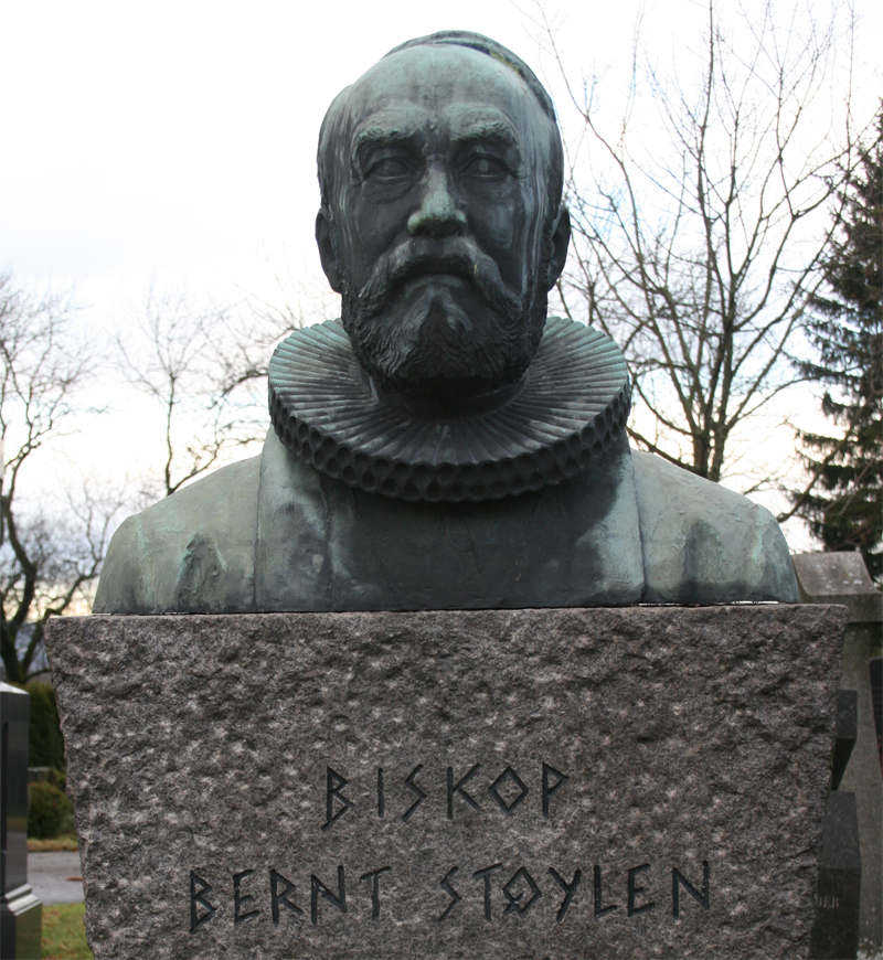 Bernt Støylen (1858–1937), Norwegian lutheran bishop; from his grave in Oslo